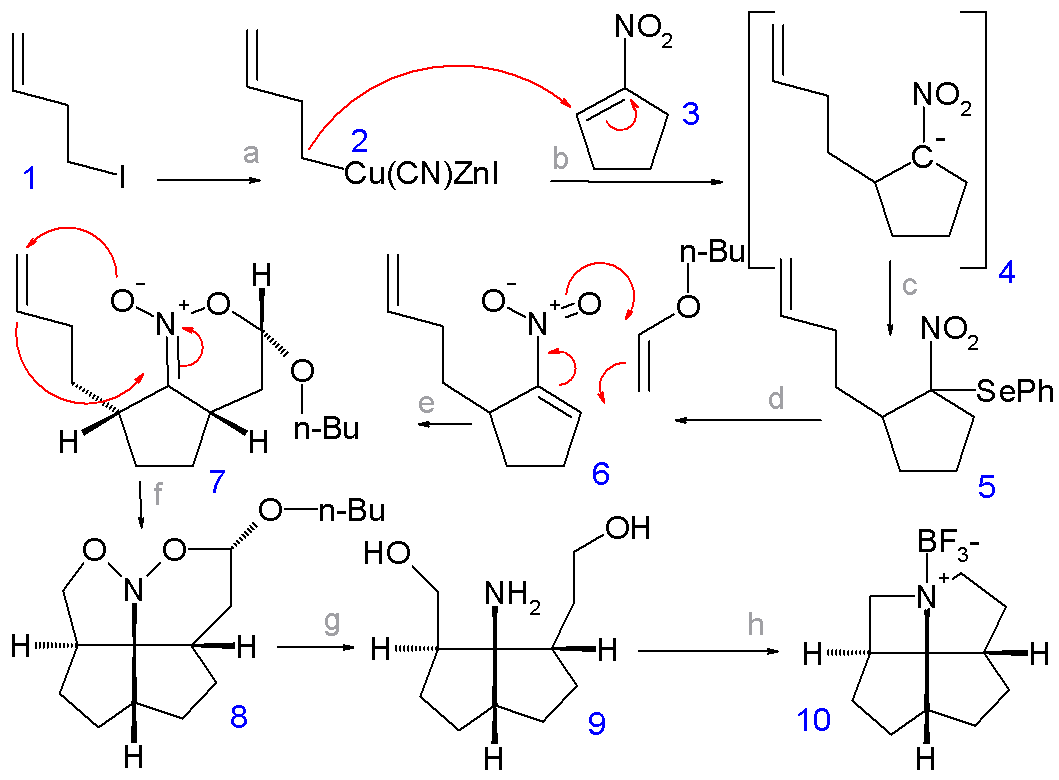 AzaFenestraneSynthesis